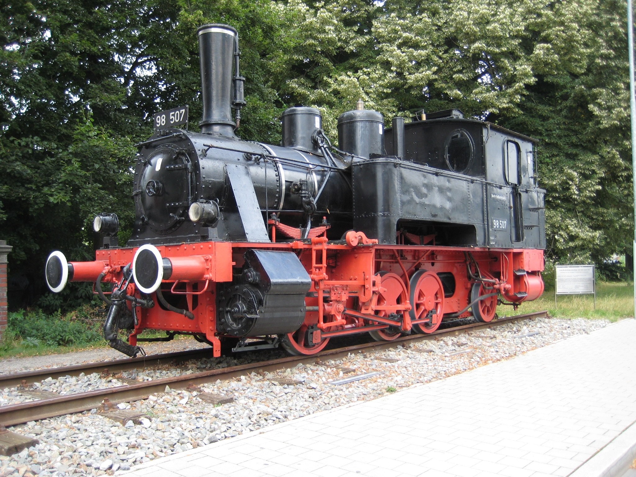 Steam locomotive 98 507, today a memorial in front of the main railway station of Ingolstadt.